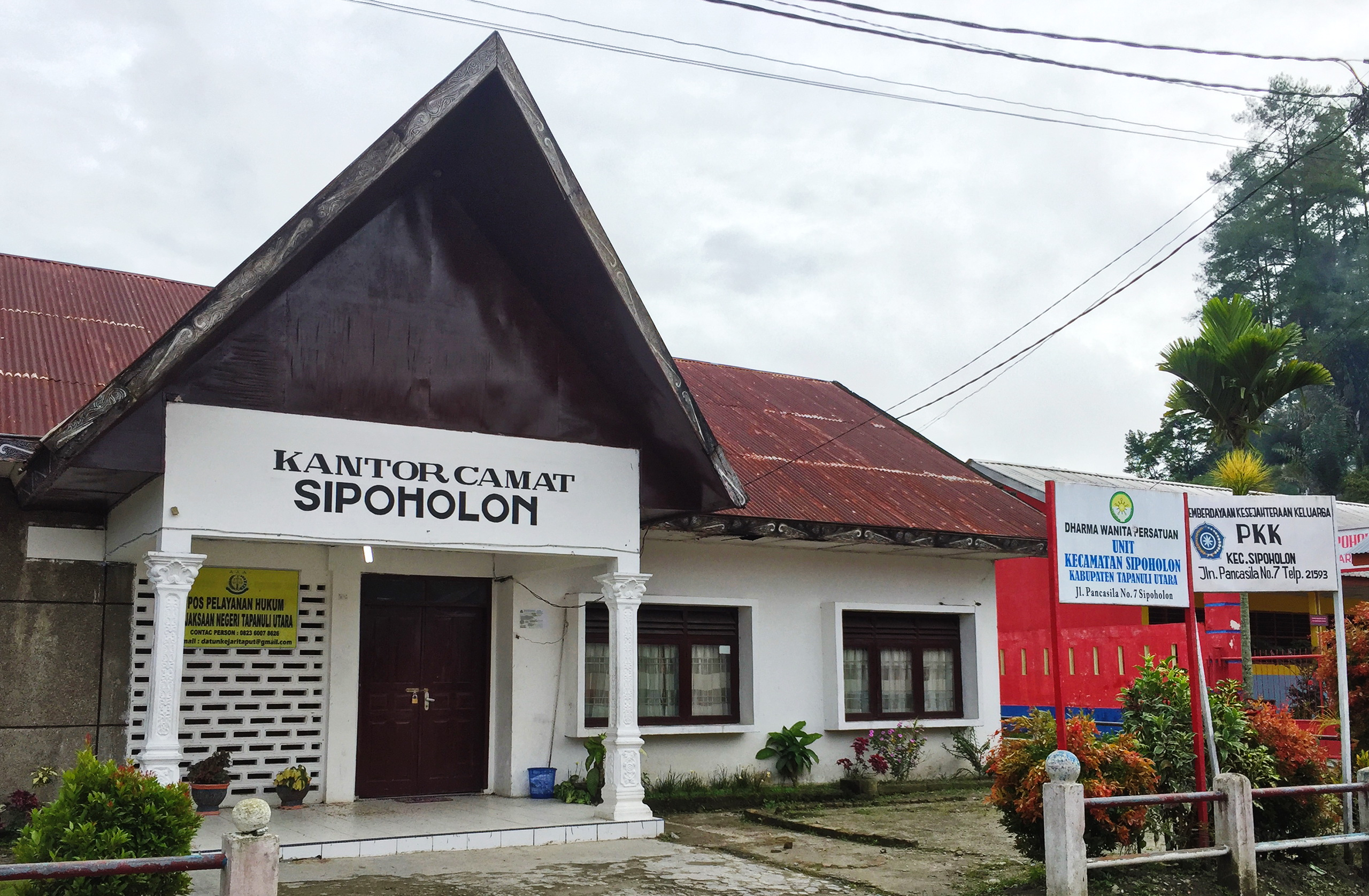 Office of Sipoholon, Tapanuli Utara